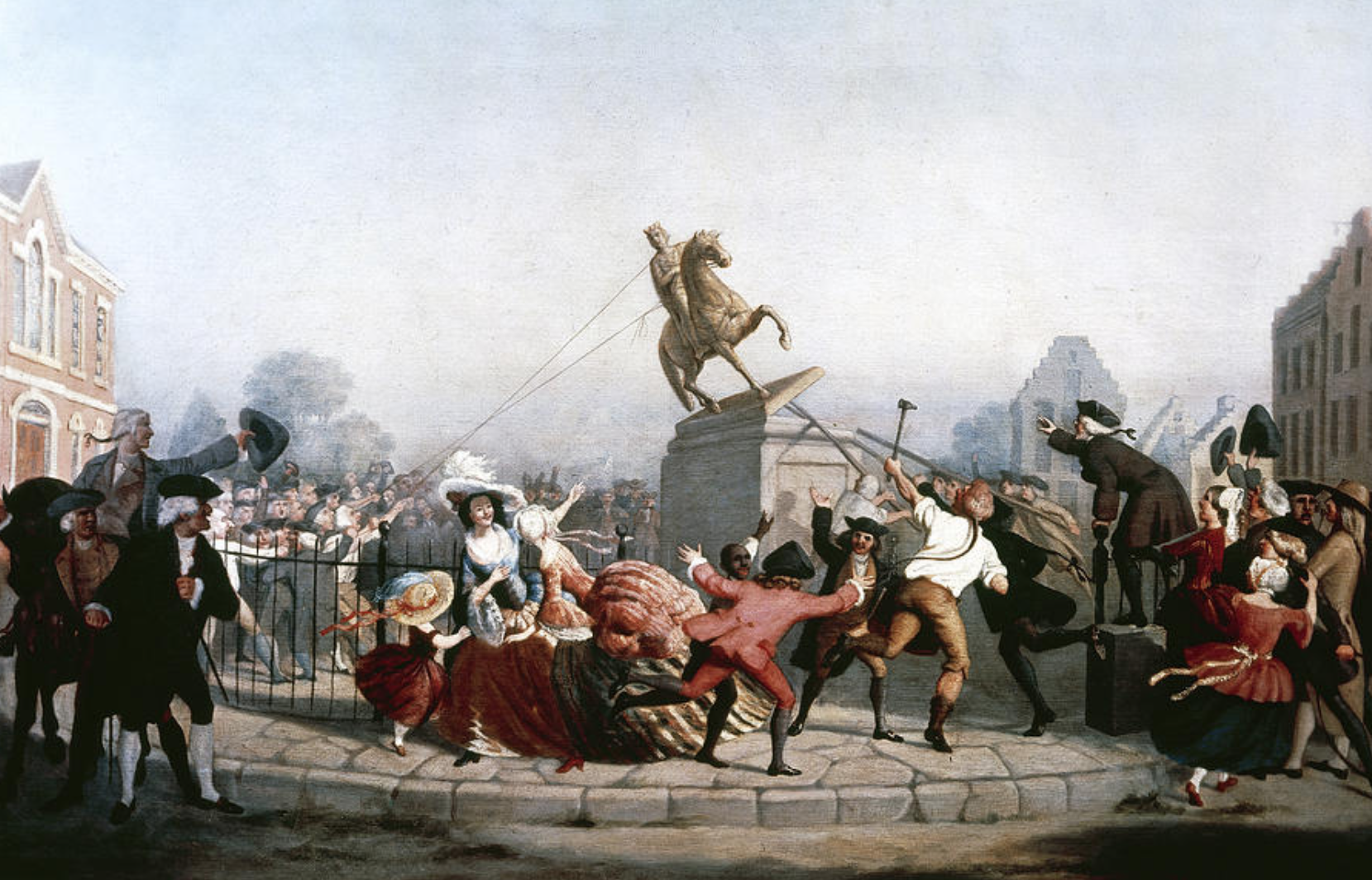 A mob pulls down a gilded lead equestrian statue of George III at Bowling Green, New York City, 9 July 1776